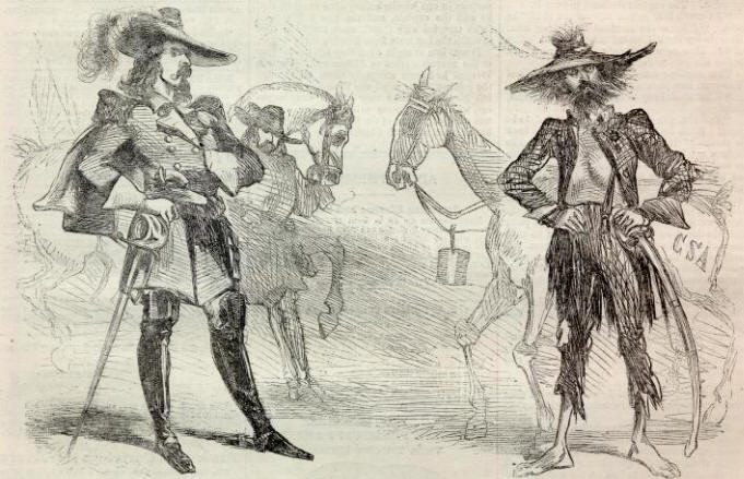 "The Rebel Chivalry: As the Fancy of 'My Maryland' painted them - As 'My Maryland' found them"; Civil War cartoon from "Harper's Weekly" (October 4, 1862) mocking the shabby appearance of Confederate soldiers during General Lee's Maryland campaign